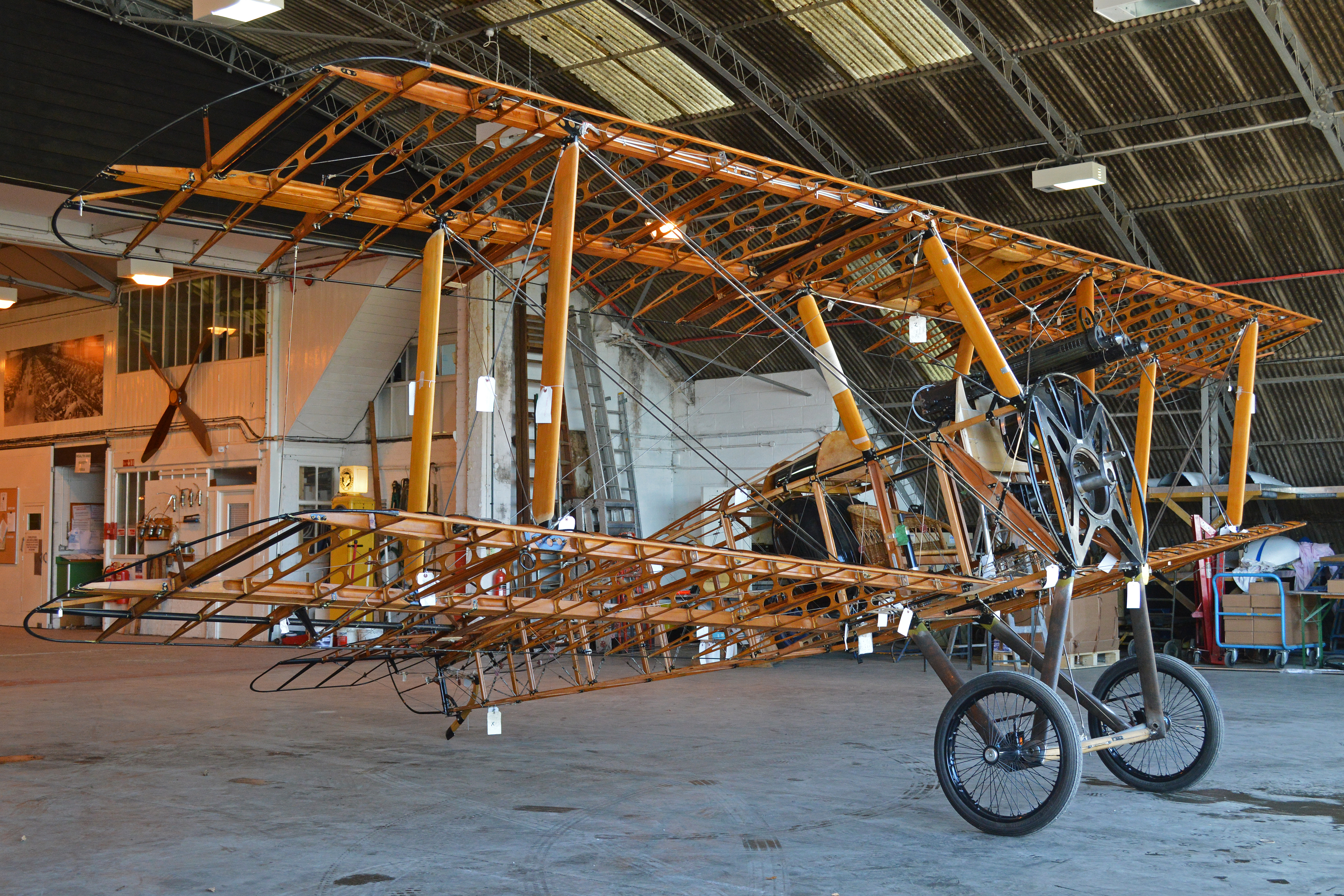 This is a very recent addition to the Shuttleworth Collection and is the latest masterpiece to come from the Northern Aeroplane Workshops in Yorkshire, the same group of skilled and dedicated volunteers who created the Sopwith Triplane and Bristol M1C that already fly from Old Warden. c/n NAW.3. Seen in the Old Warden workshop on the day of the 2013 Autumn Airshow. 06-10-2013